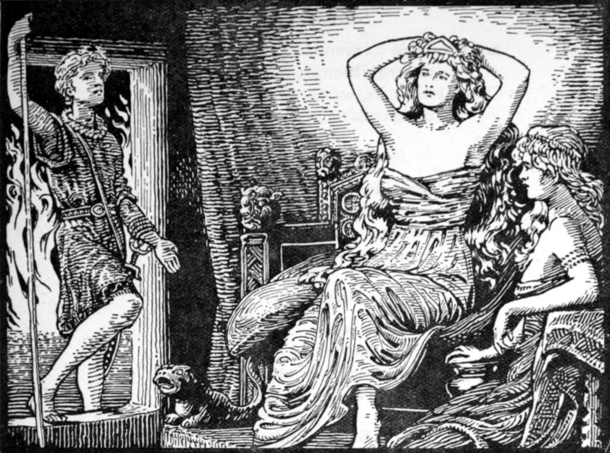 An illustration to Skírnismál. The list of illustrations in the front matter of the book gives this one the title Skirnir's message to Gerd.